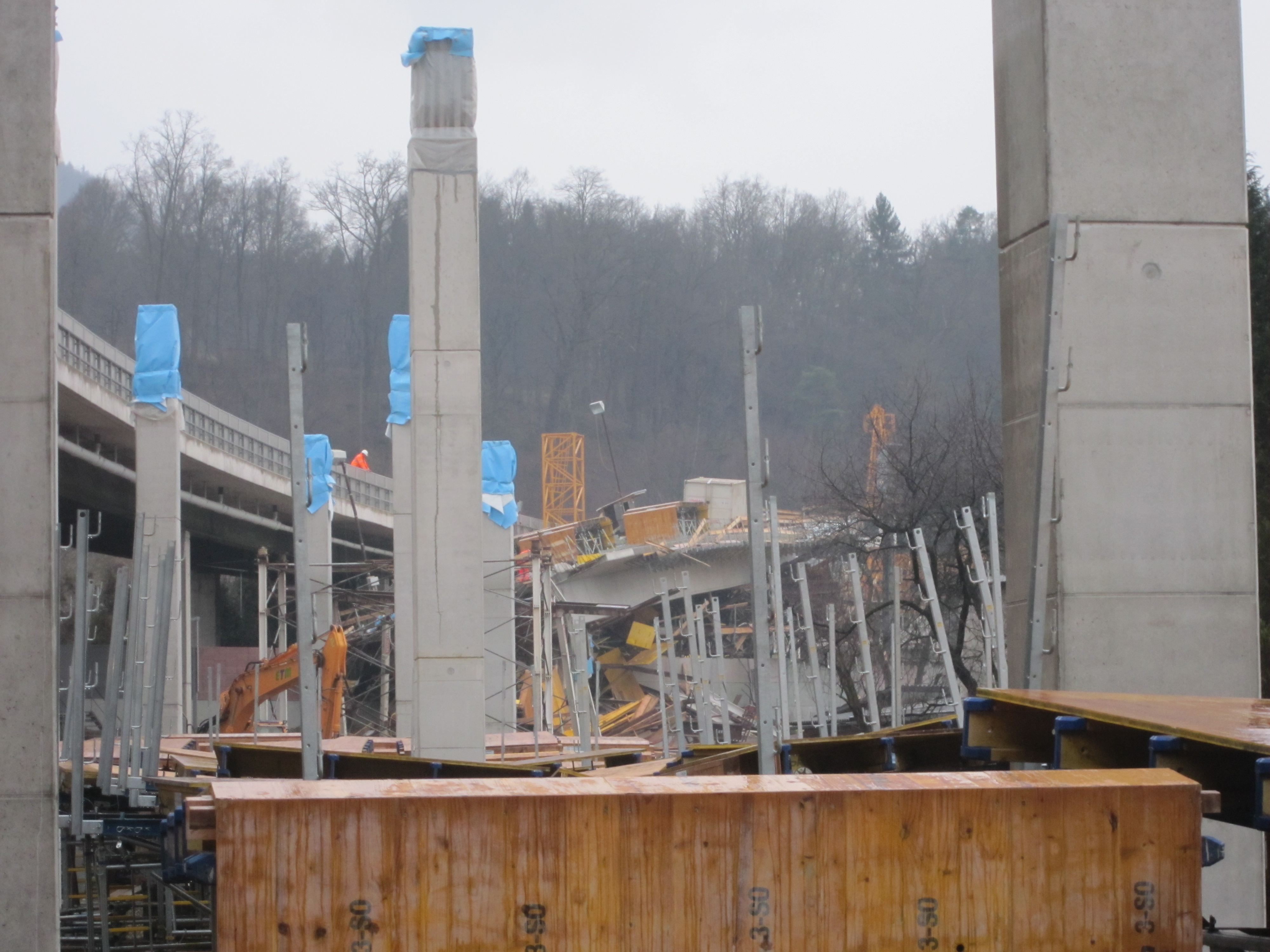 View of the collapsed segment of the bridge being under construction on Brucker Schnellstraße in Frohnleiten, Austria.